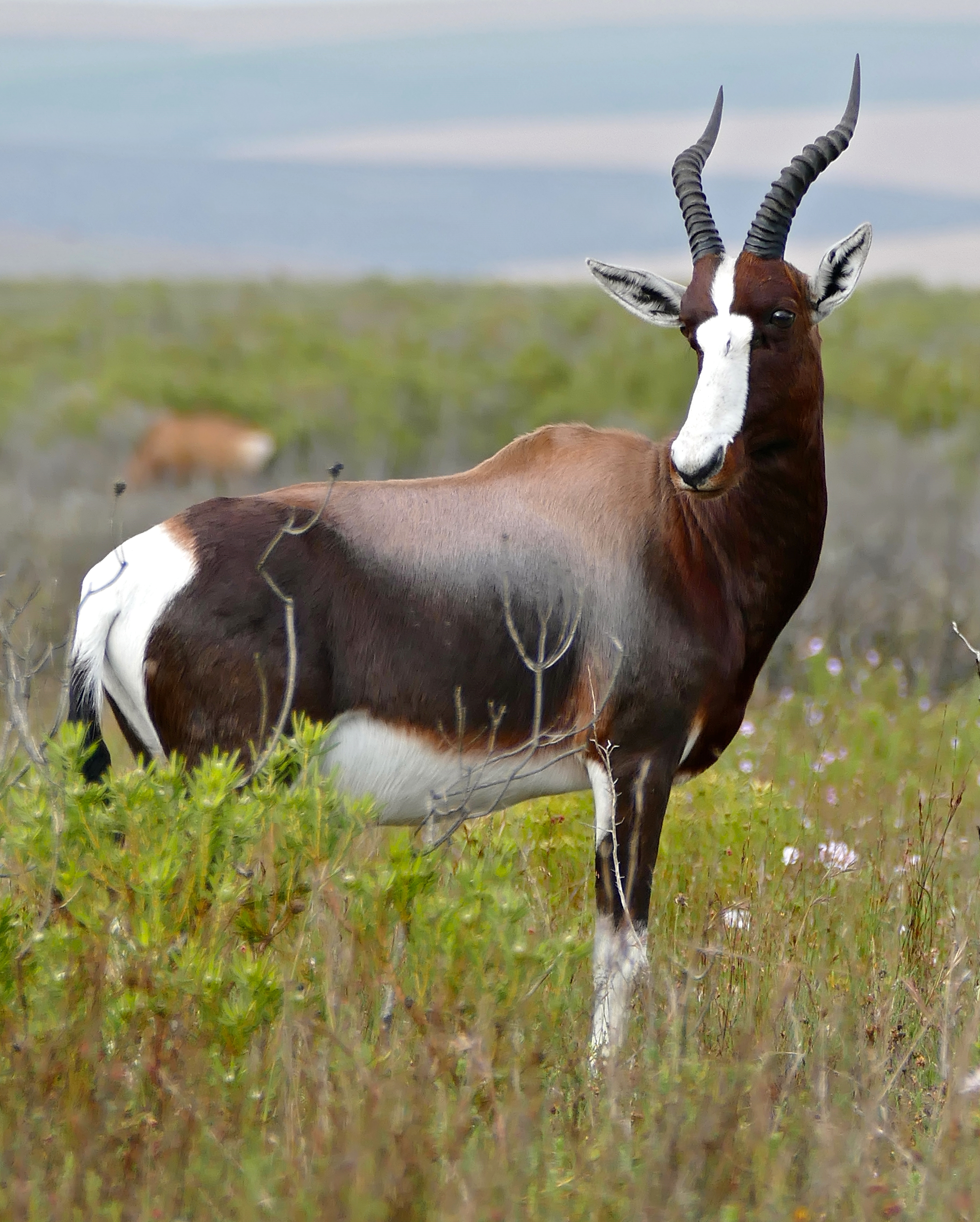 Eastern Loop, Bontebok NP, Western Cape, SOUTH AFRICA